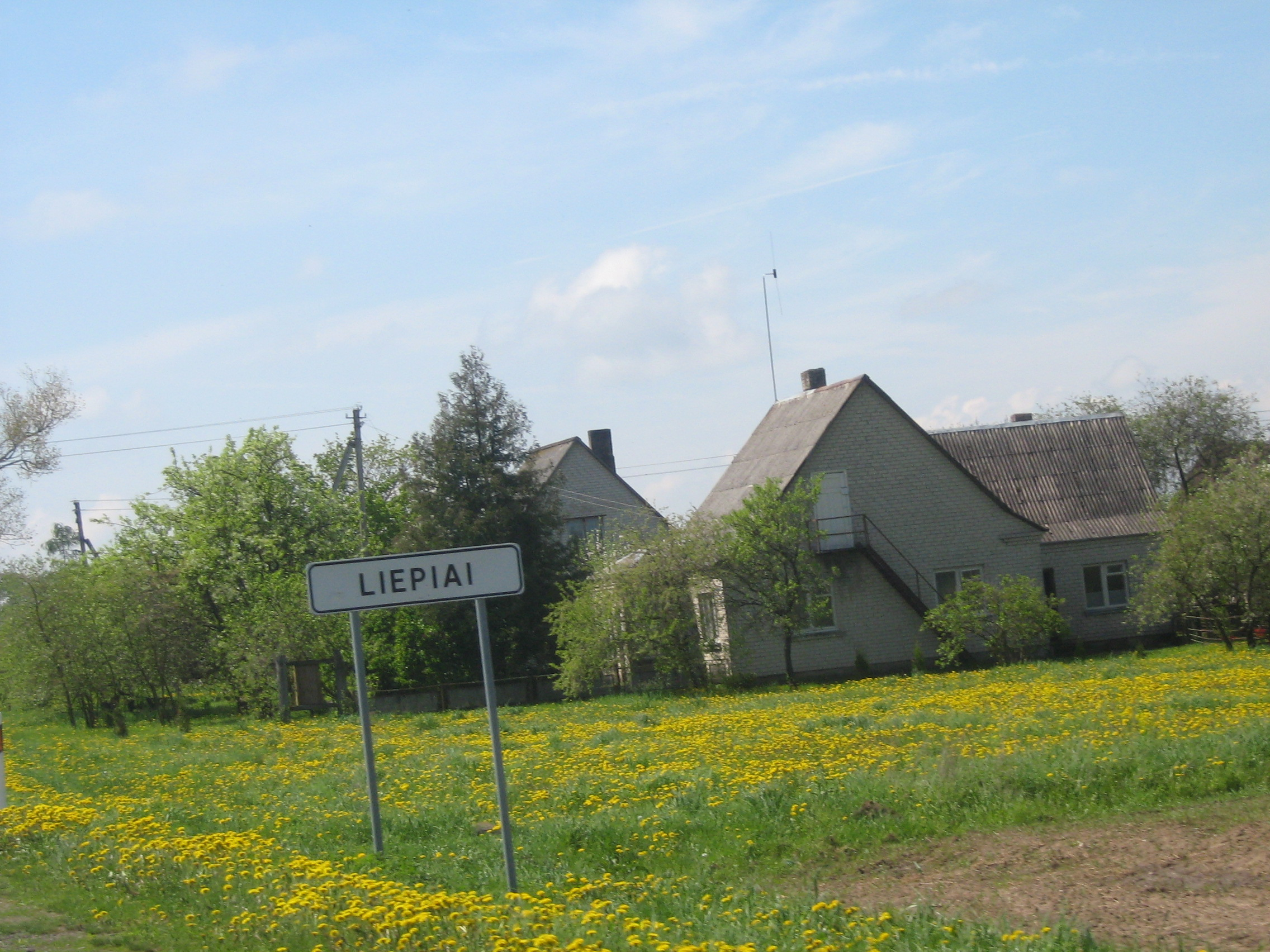 Liepiai